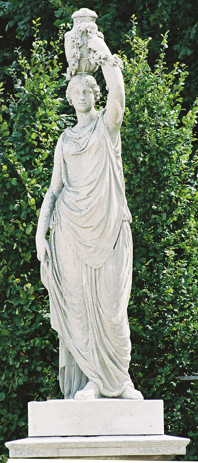 Vienna, Schönbrunn gardens, statue Nymph of Flora